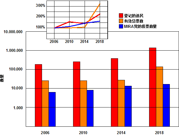 This figure summarizes the historic (2006-2018) election results of the MIRA Party in the Colombian expatriates Constituency. The data was taken from the final vote counting done by the National Civil Registry of Colombia. The subplot shows the votation trends. This file version is for use in the Wikipedia in Chinese.